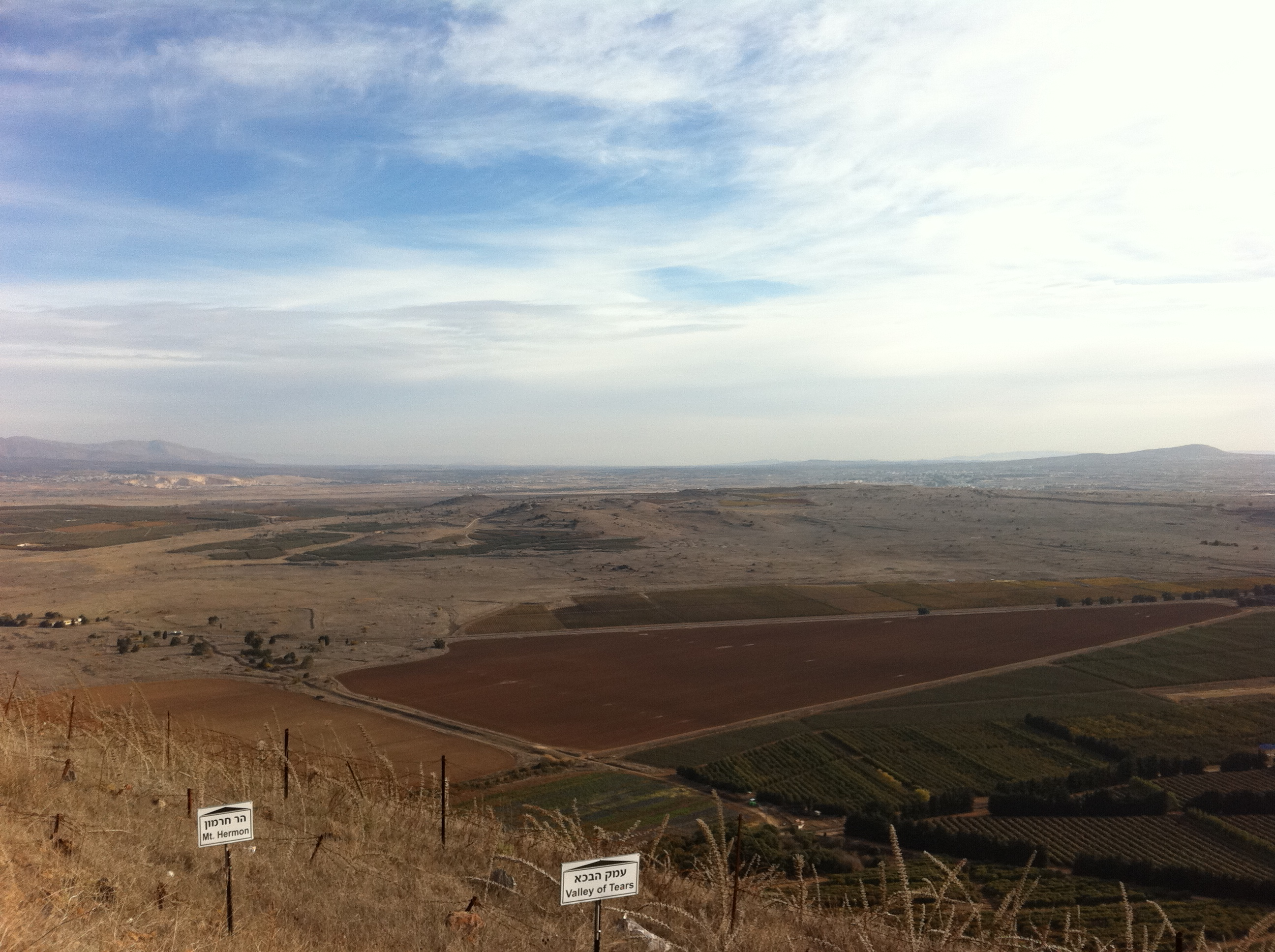 Valley of Tears.